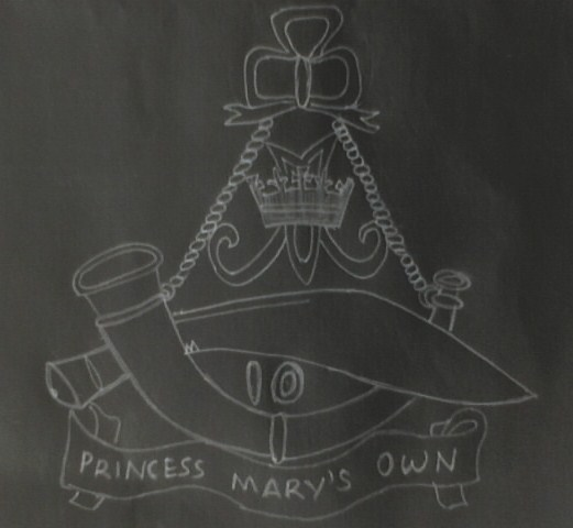 cap badge of 10 gurkha rifles